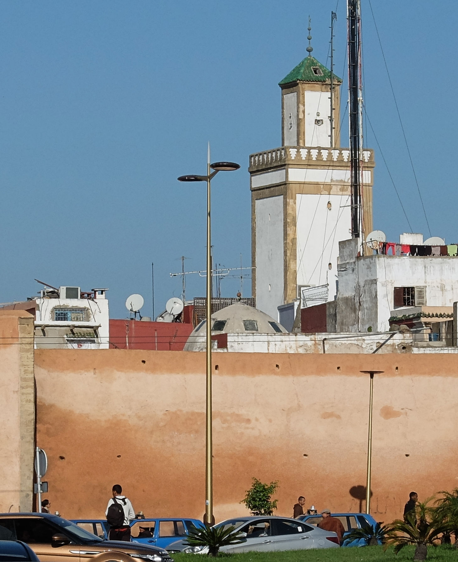 Minaret of Moulay Slimane Mosque (early 19th century) in medina of Rabat.